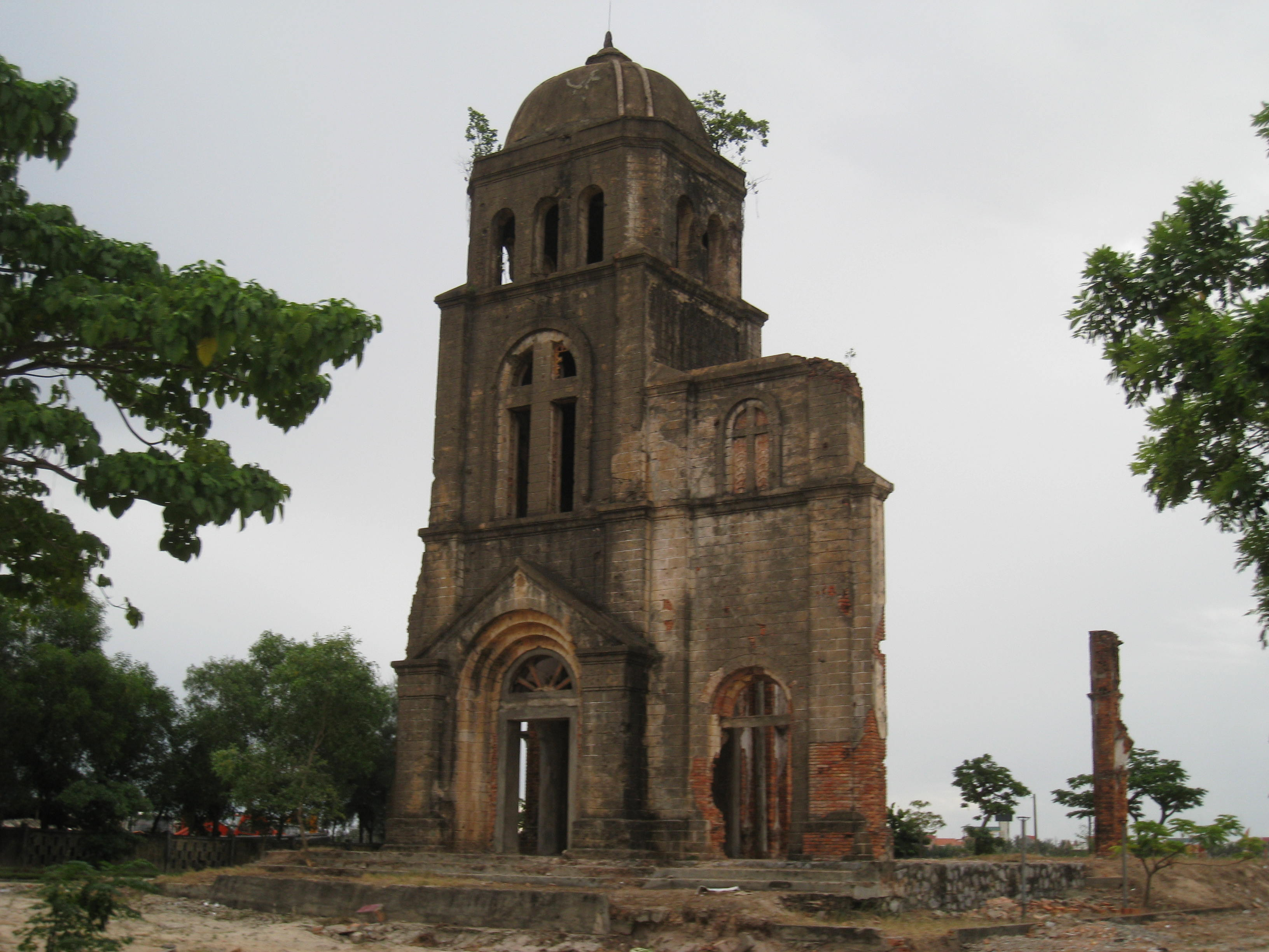 Tam Toa Church in Dong Hoi, Quang Binh, Vietnam